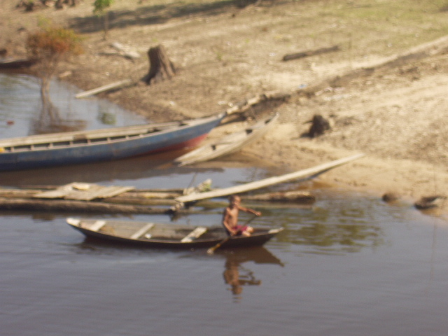 A little kid using a "canoa" at Amazon River. Caioezinho Community, Novo Airao, Amazon State - Brazil